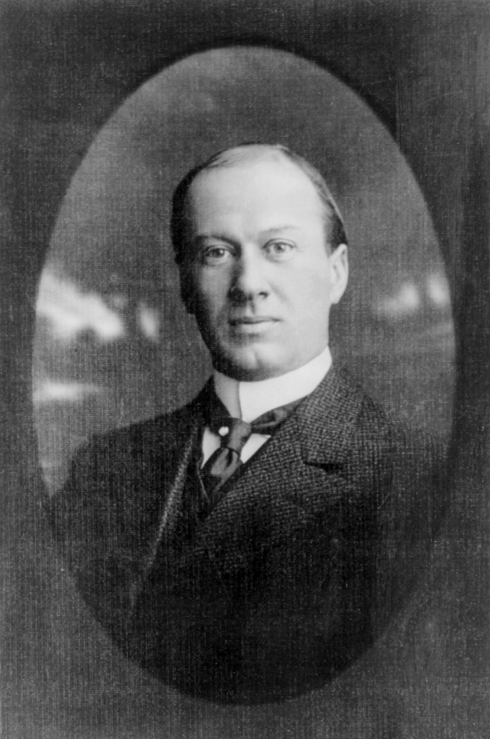 Alfred I. DuPont, bust portrait, facing left (photograph of a photograph)